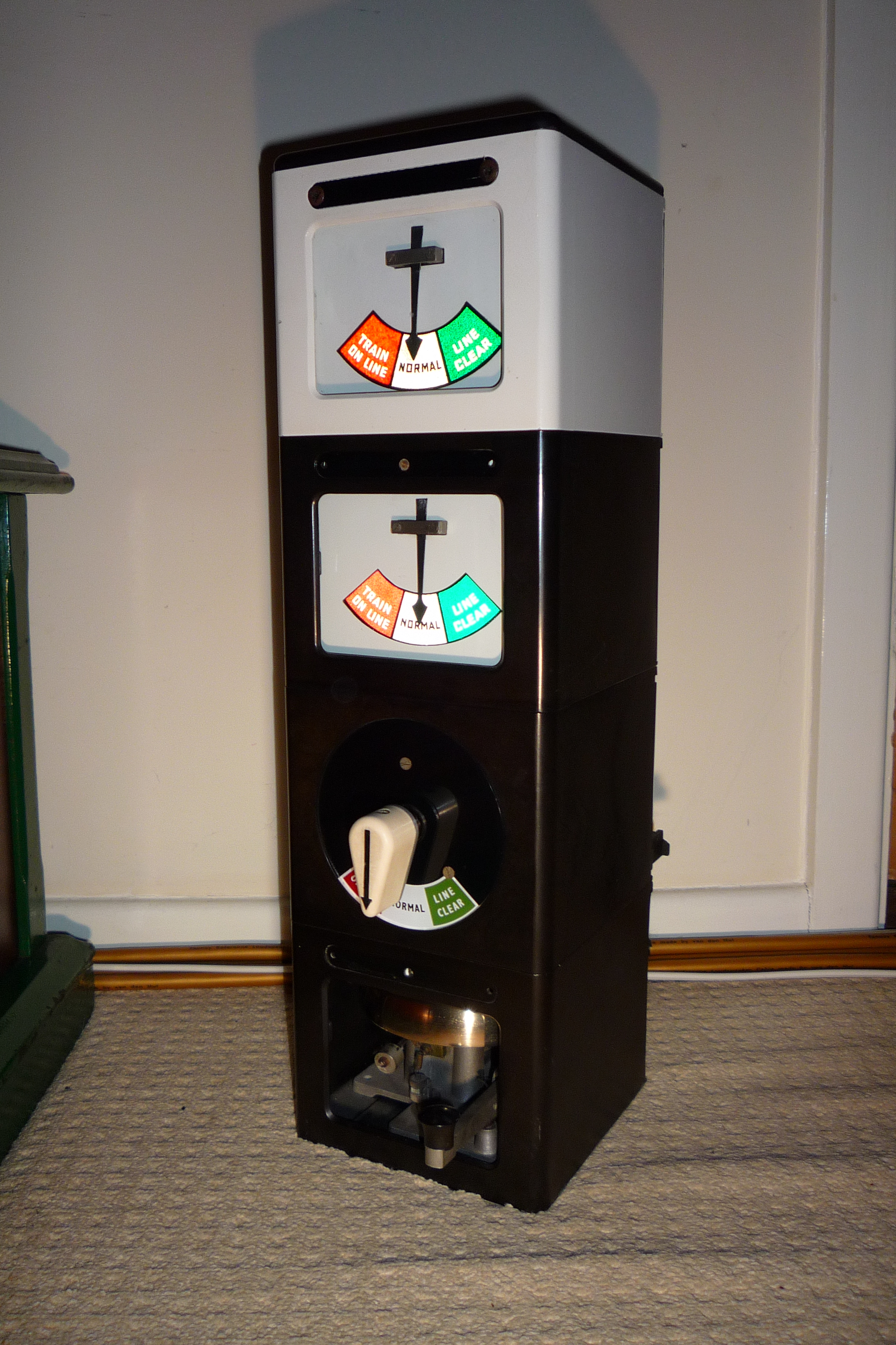 British Railways Standard (Domino) Block Instrument.